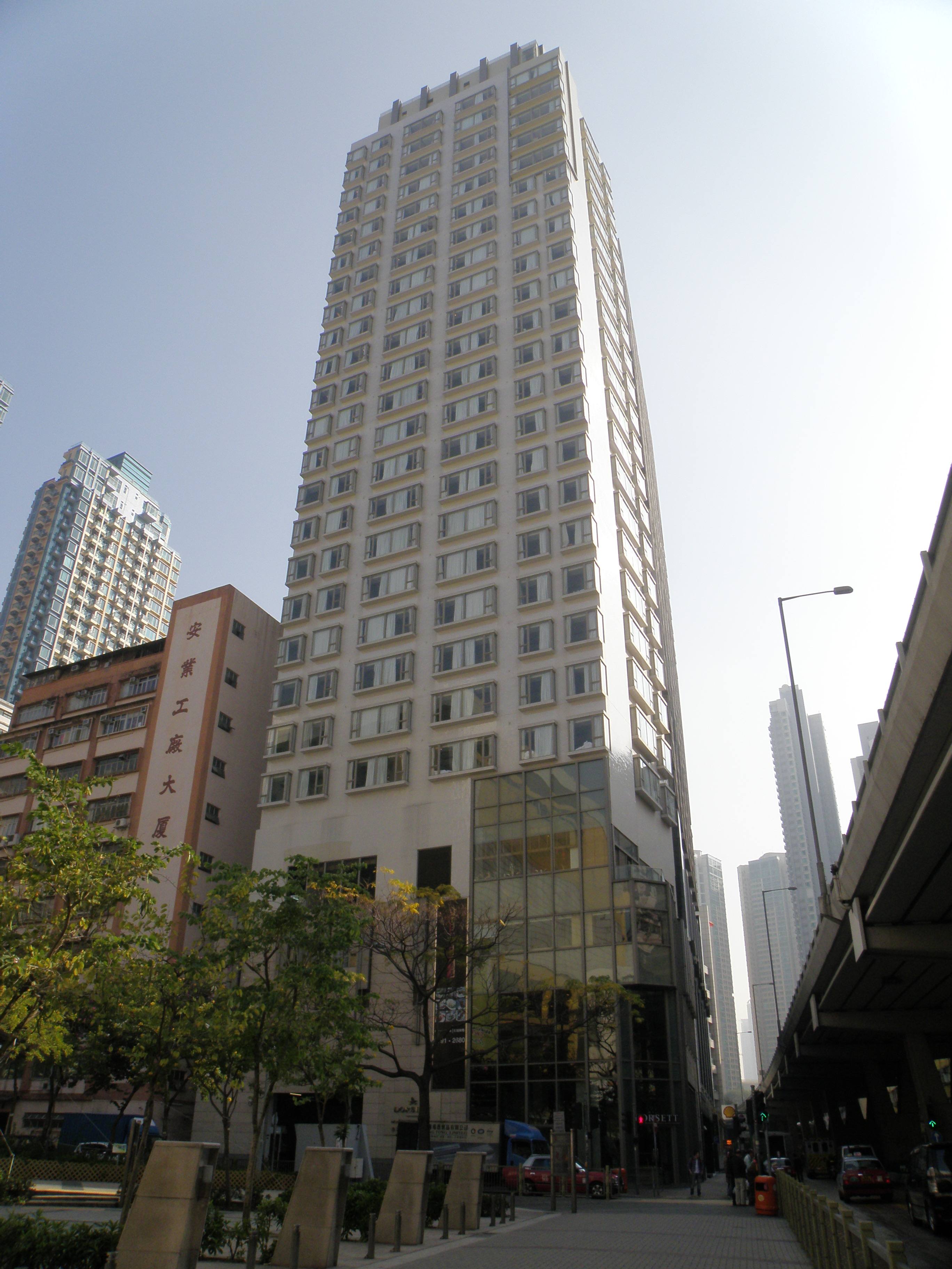 Dorsett Mongkok Hotel in Tai Kok Tsui, Hong Kong.